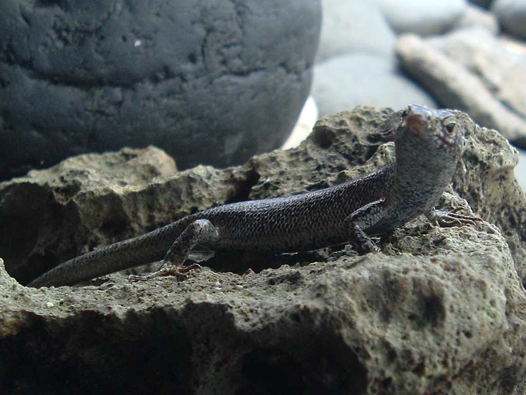 Picture of the lizard Trachylepis atlantica taken on Fernando de Noronha island in Brazil.